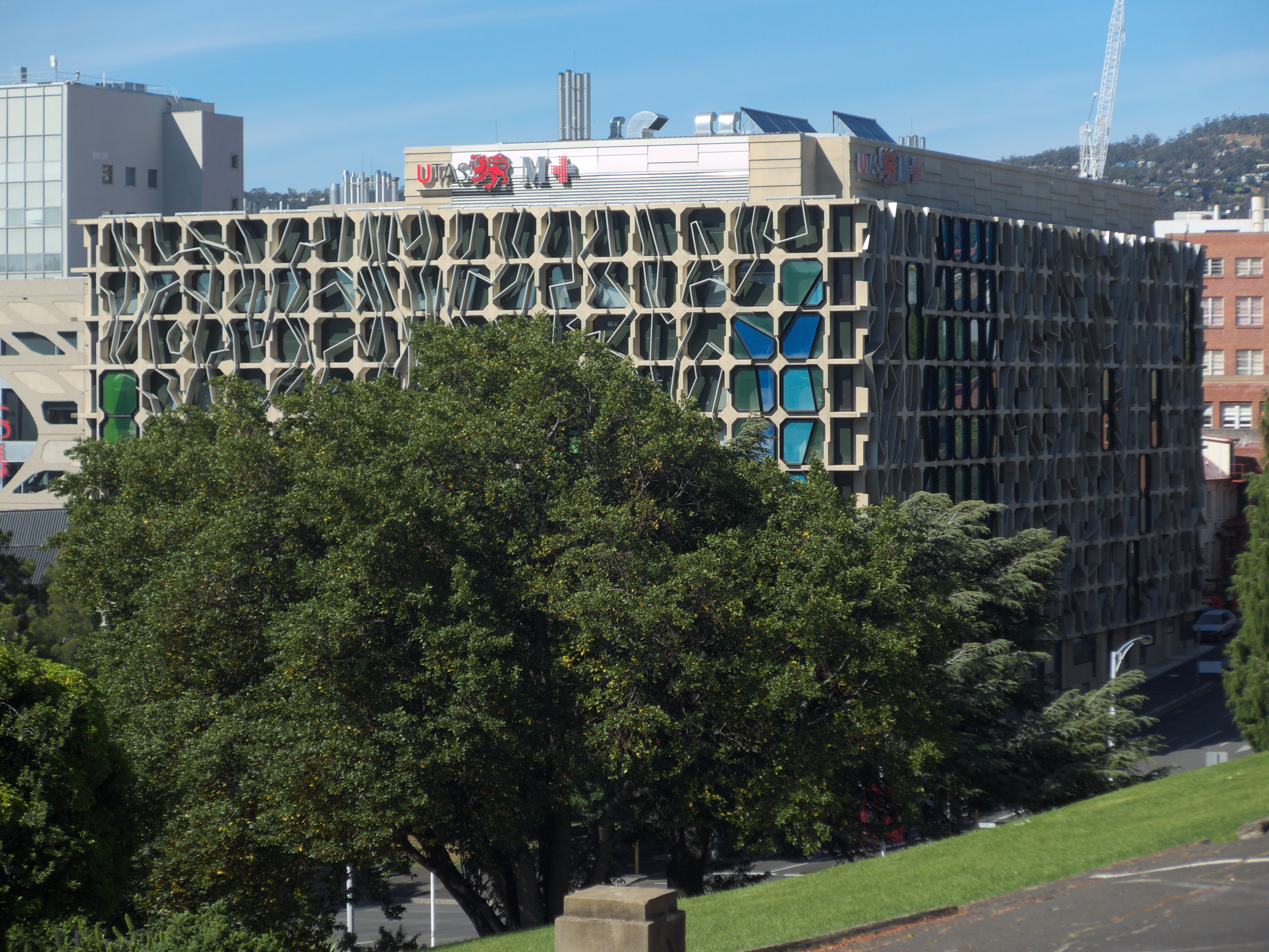 University of Tasmania Medical Sciences MS2 building on Bathurst Street, seen from the front of Domain House.